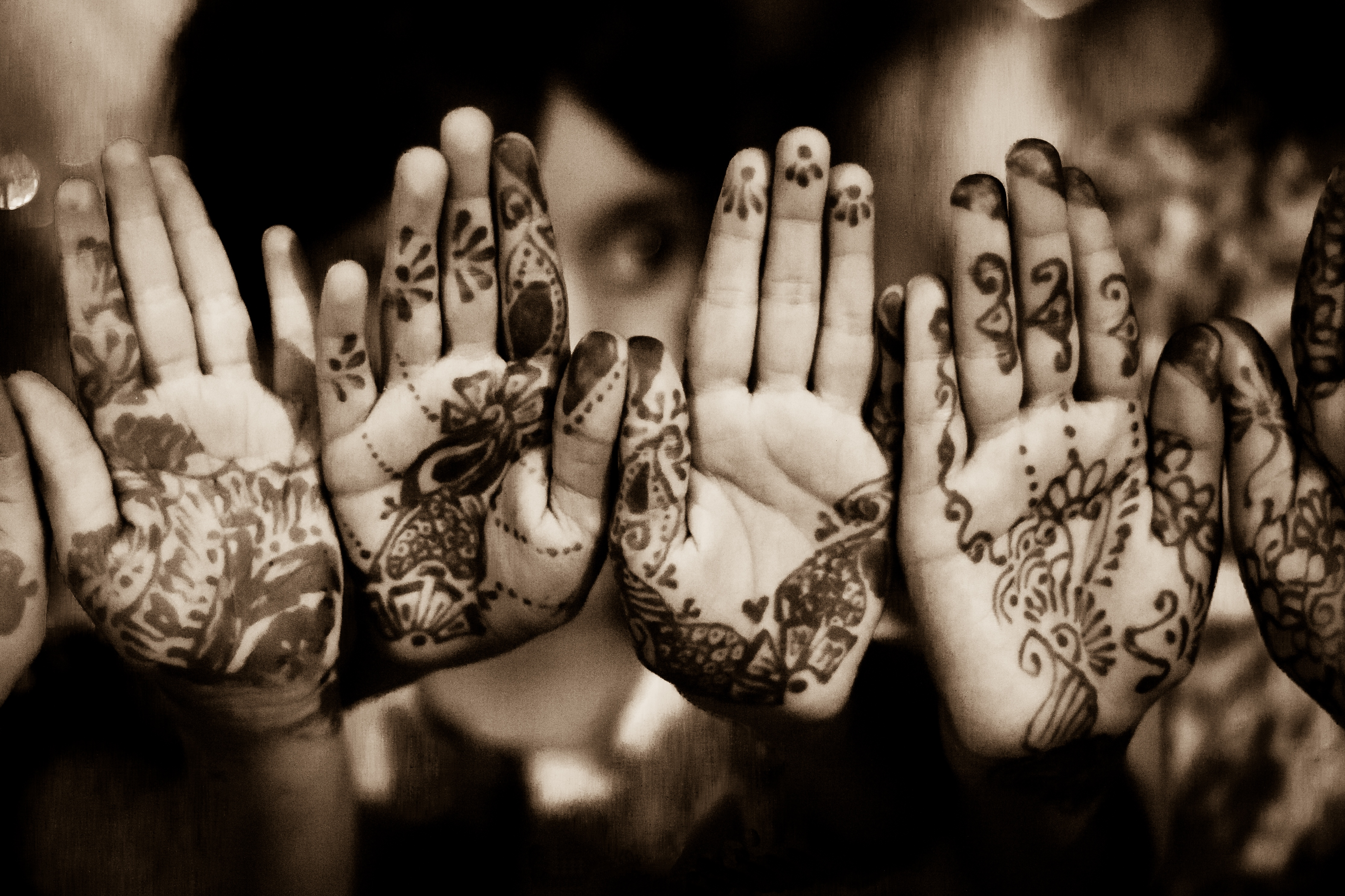 Yesterday was 'Chaand raat' , which translates as the night of the moon. It marks the sighting of moon one day before the muslim festival of 'Eid'. On this day girls decorate themselves with intricate designs of Henna and wear bangles!